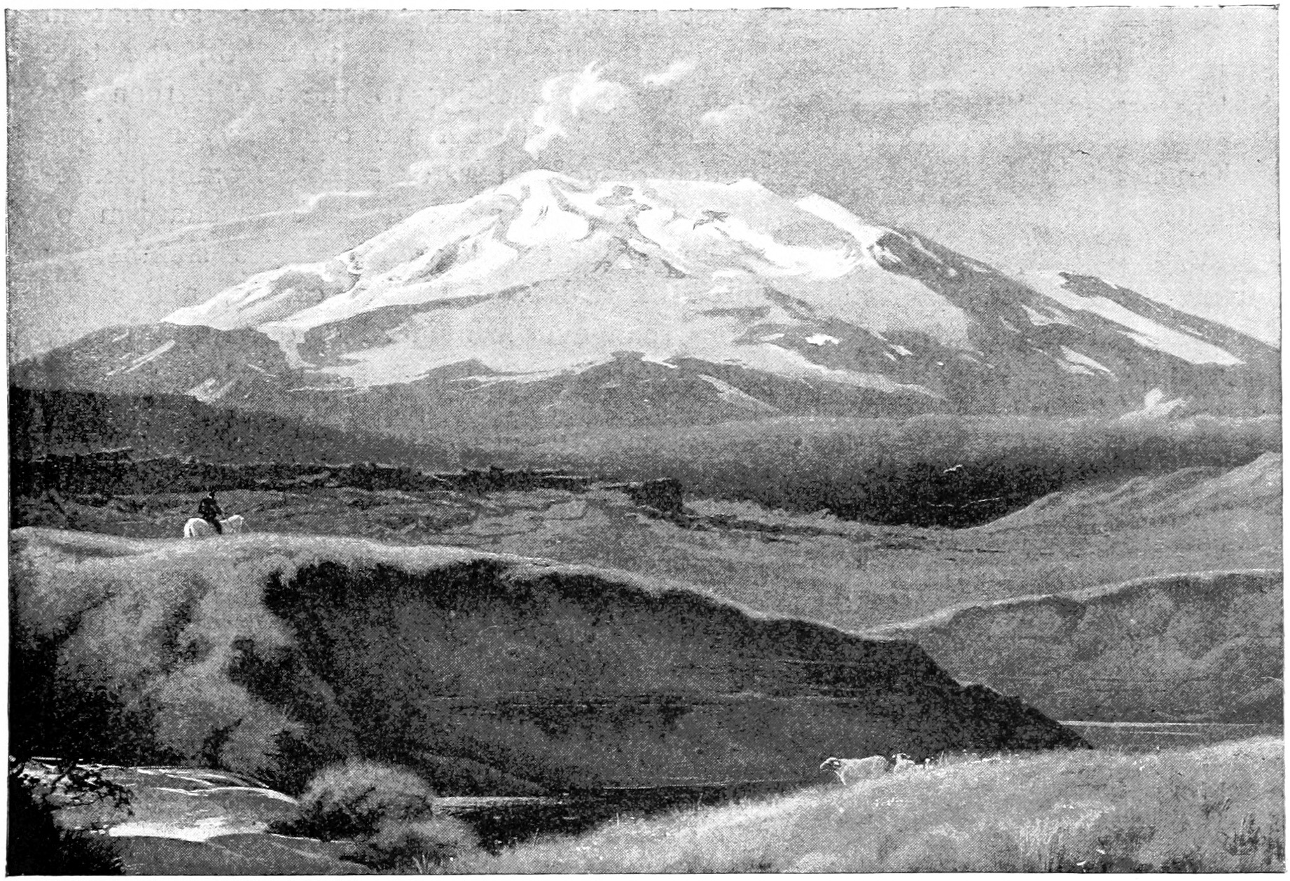 Image extracted from page 99 of "Icelandic Pictures drawn with pen and pencil ... with a map and ... illustrations" 'APPROACHING HEKLA , by HOWELL, Frederick W. W.. Original held and digitised by the British Library. Copied from Flickr. Image cropped, greyscale, levels adjusted